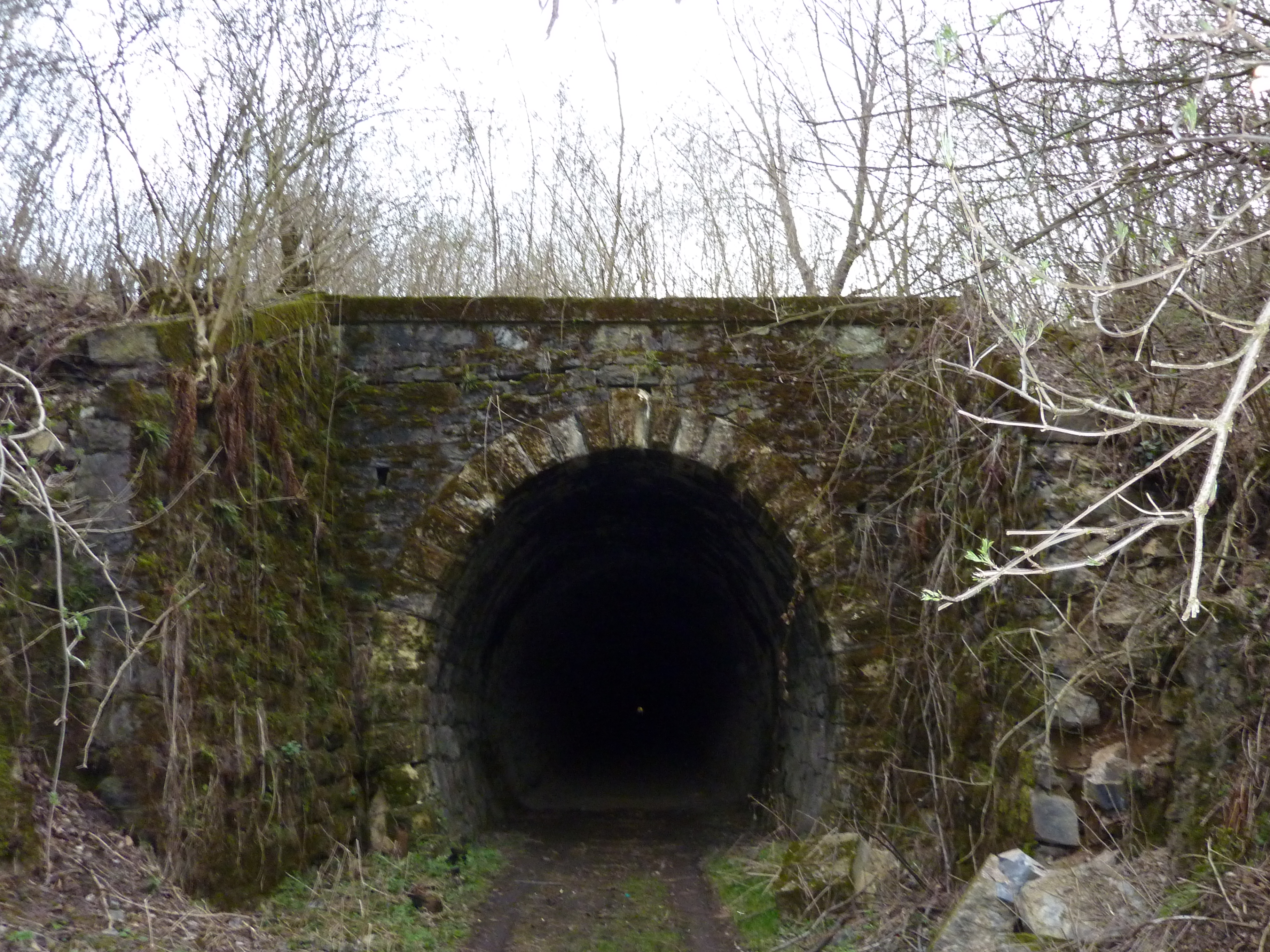 The north entrance from Zlaşti of the 747 meter long tunnel.